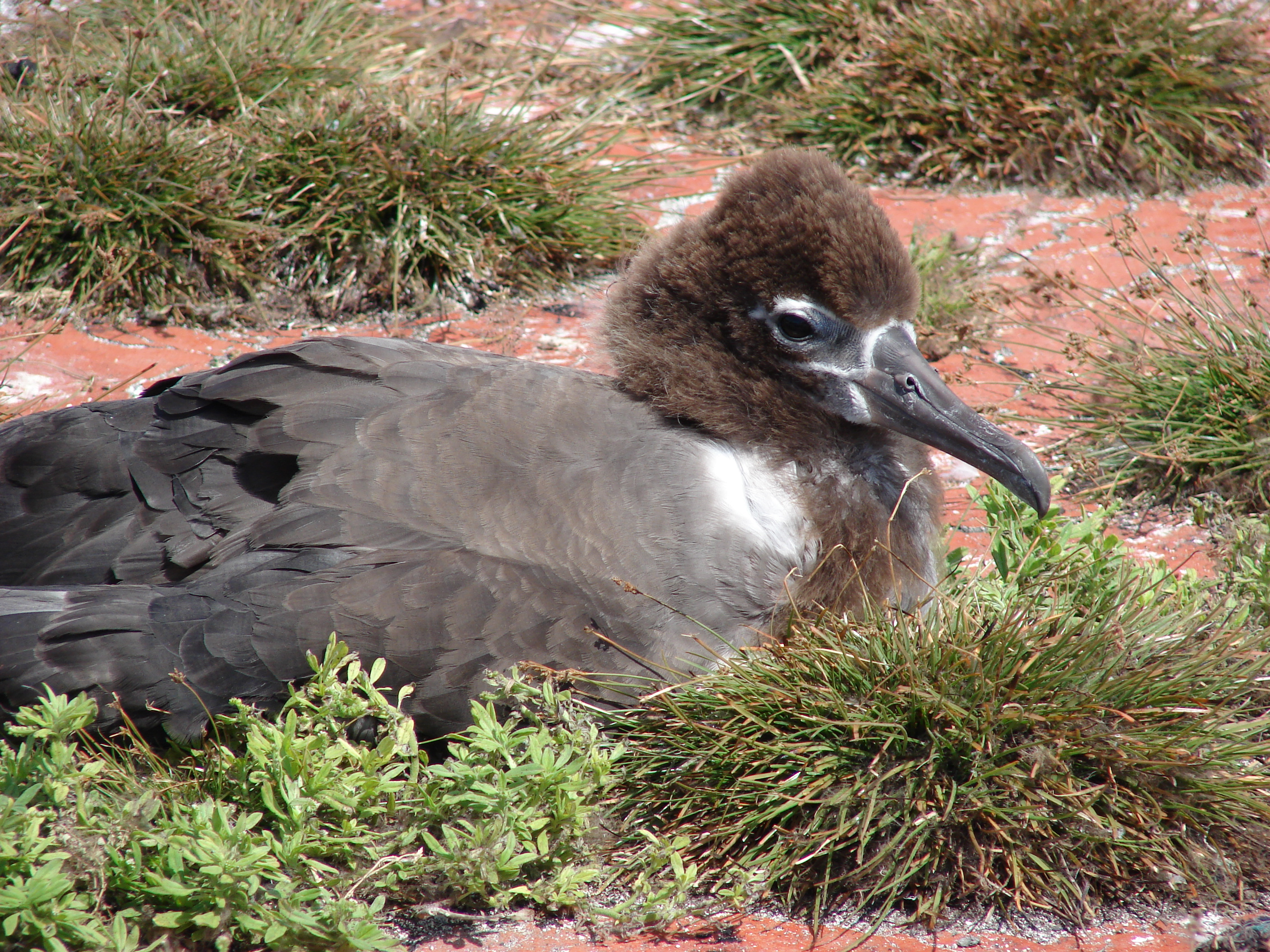 Fimbristylis cymosa (habit with Laysan albatross). Location: Midway Atoll, Antenna field Sand Island